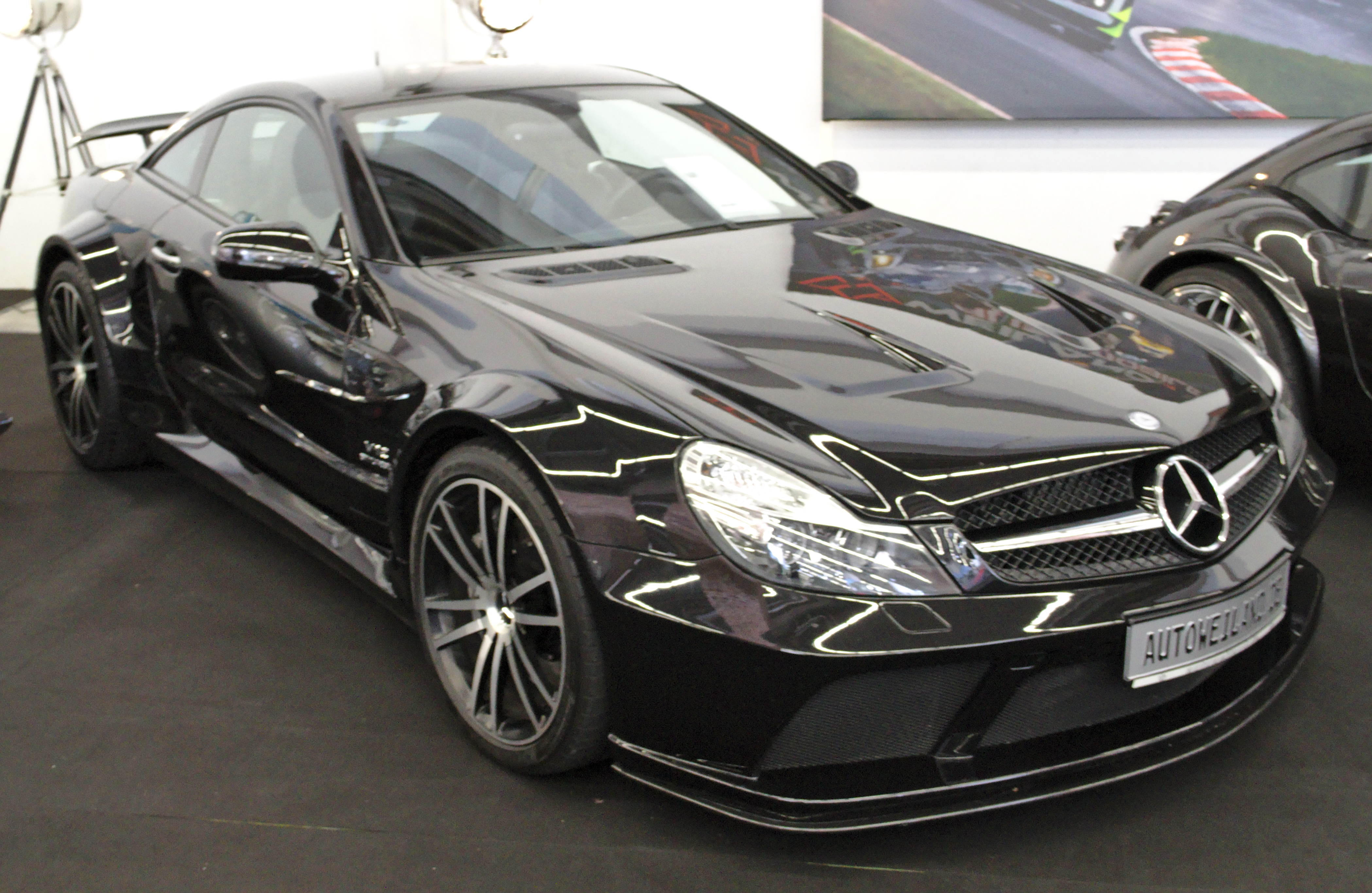 Mercedes-Benz R230 SL 65 AMG Black Series at IAA 2019